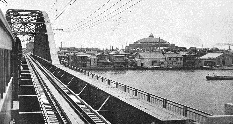 Sobu Line Sumidagawa Bridge in 1930s